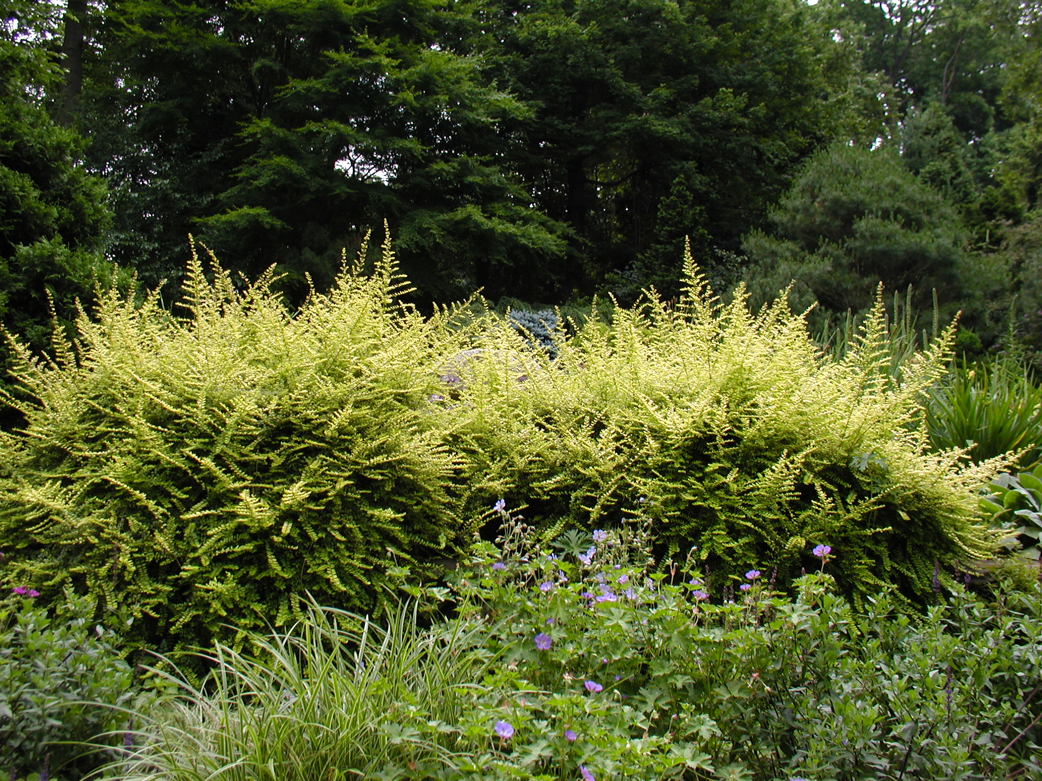 Lonicera nitida 'Bageson's gold' before pruning